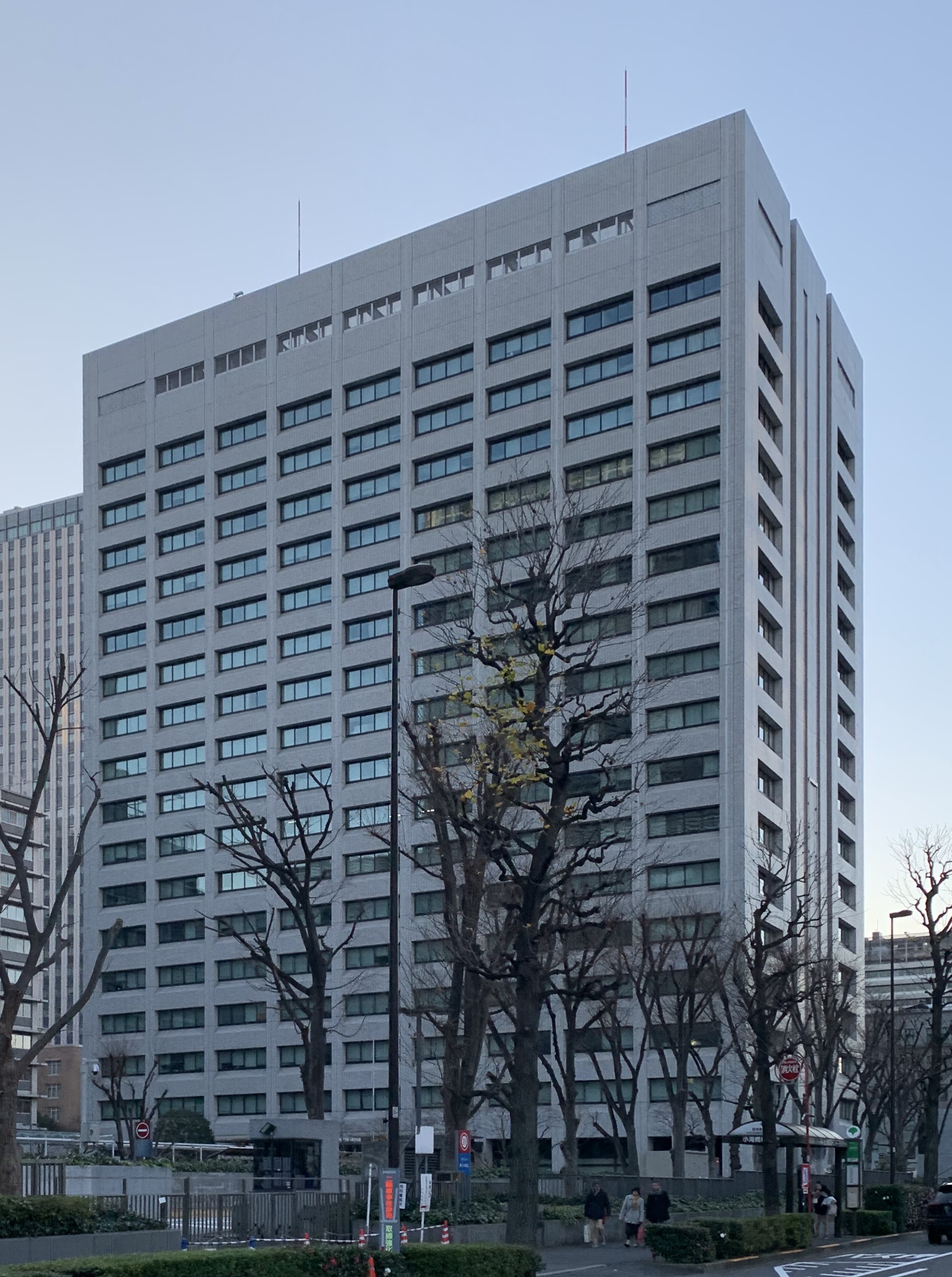 1月3日16:09 撮影